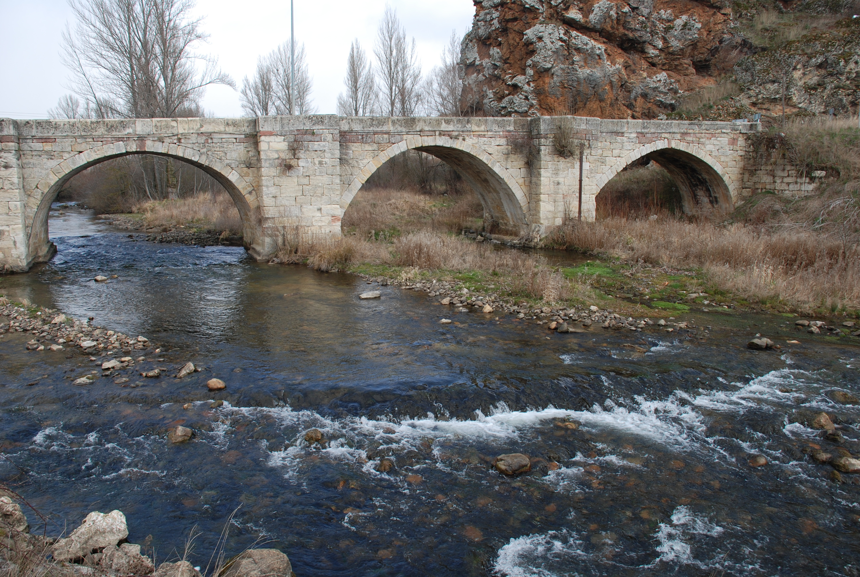 Stone bridge over Pisuerga river in Cervera de Pisuerga (Palencia, Castile and León).